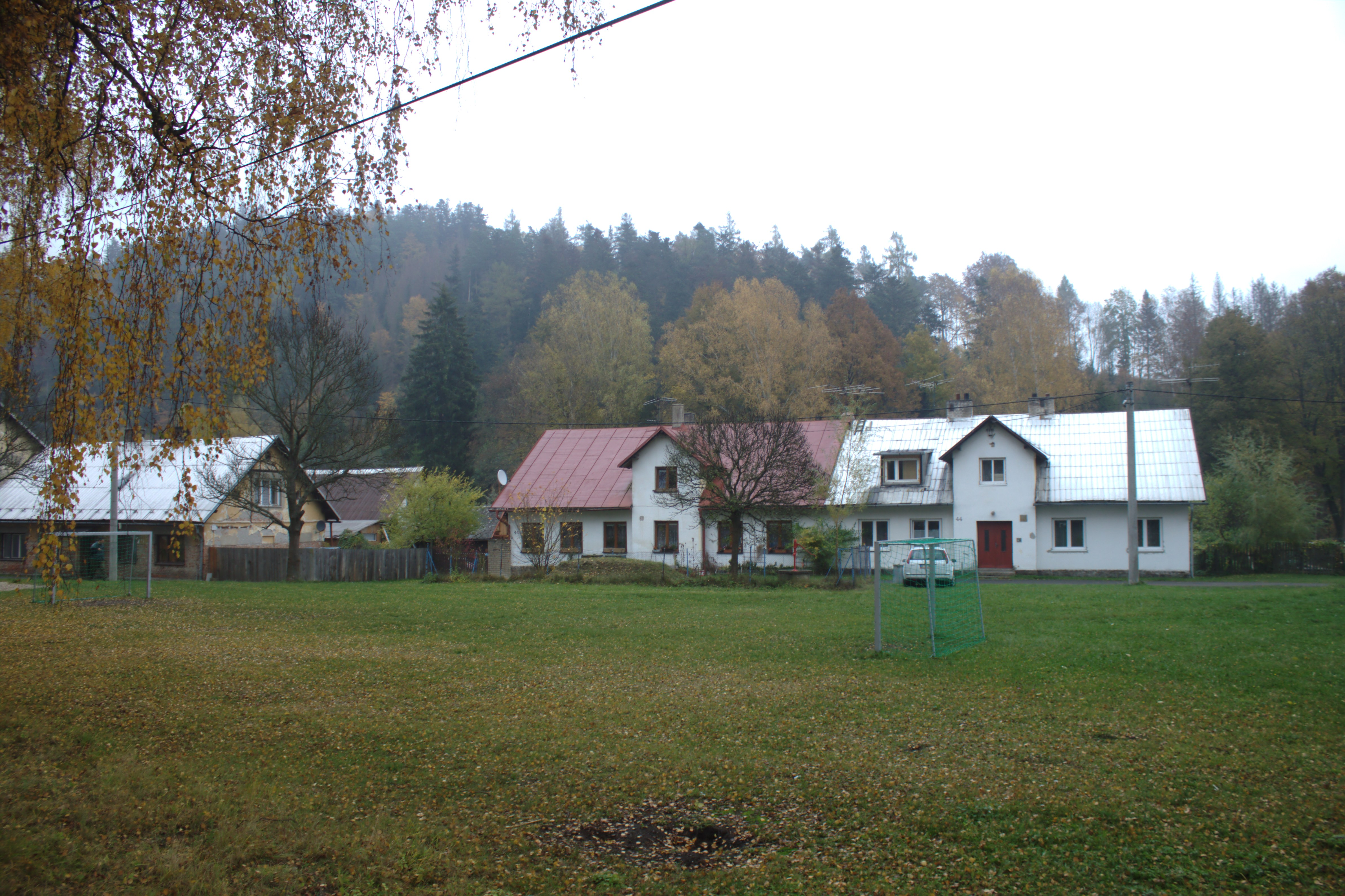 Buildings in the village of Kunov near Bruntál, CZ